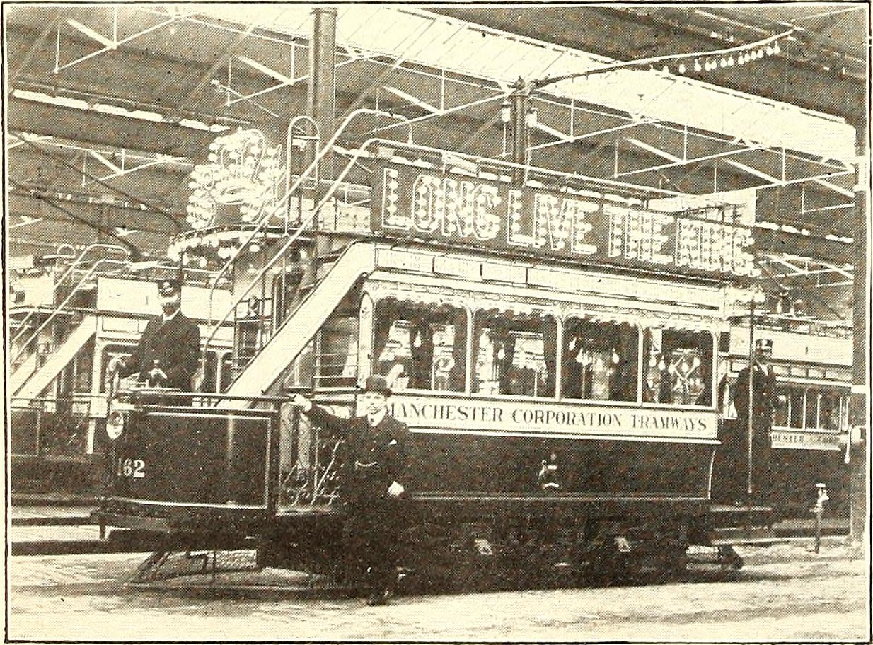 Title: The Street railway journal Year: 1884 (1880s) Authors: Subjects: Street-railroads Electric railroads Transportation Publisher: New York : McGraw Pub. Co. Text Appearing Before Image: systems in the celebrationswhich were to be held throughout England, June 26 and 27, at thetime of the coronation of the King. Owing to the unfortunateand unexpected illness of Edward VII., the festivities throughoutthe kingdom were partially abandoned, but the news in regard to tesy of J. H. F. Bale, resident tramways engineer of the ManchesterCorporation, views of two of the features prepared by that com-pany for the coronation celebrations are presented herewith. Thefirst one of these is a handsome, double-deck car carrying 600lamps. These were green, white and red in color, and arranged toshow a coronet and spell Long live the King. The top seatswere left for a brass band, so that the car could make a tour ofthe principal streets. The second illustration shows an attractive illuminated sign inthe form of a trolley car of full size, which was hung on the frontof the companys offices on Piccadilly. The sign contained 400lamps. This method of decorating which, as far as is known, is Text Appearing After Image: ILLUMINATED CAR, MANCHESTER His Majestys condition, on June 26, was so favorable that, at theexpress desire of the royal patient, many of the more quiet evi-dences of loyalty which his subjects had arranged were carried outaccording to the programme. Although the advent of the trolley into Great Britain on a con-siderable scale is of comparatively recent date, the possibilities in